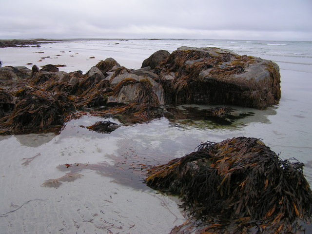 Rockpool